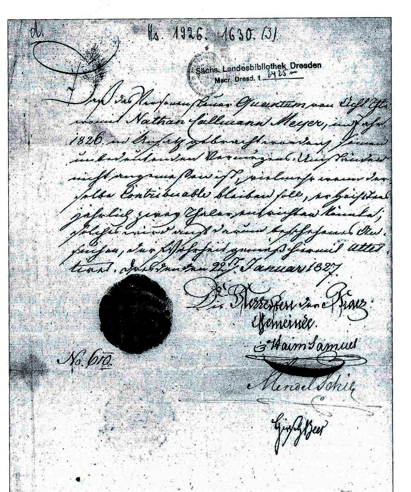 Mendel Schie Israelitische Religionsgemeinde Dresden Attest für Nathan Callmann Meyer Dresden 1827